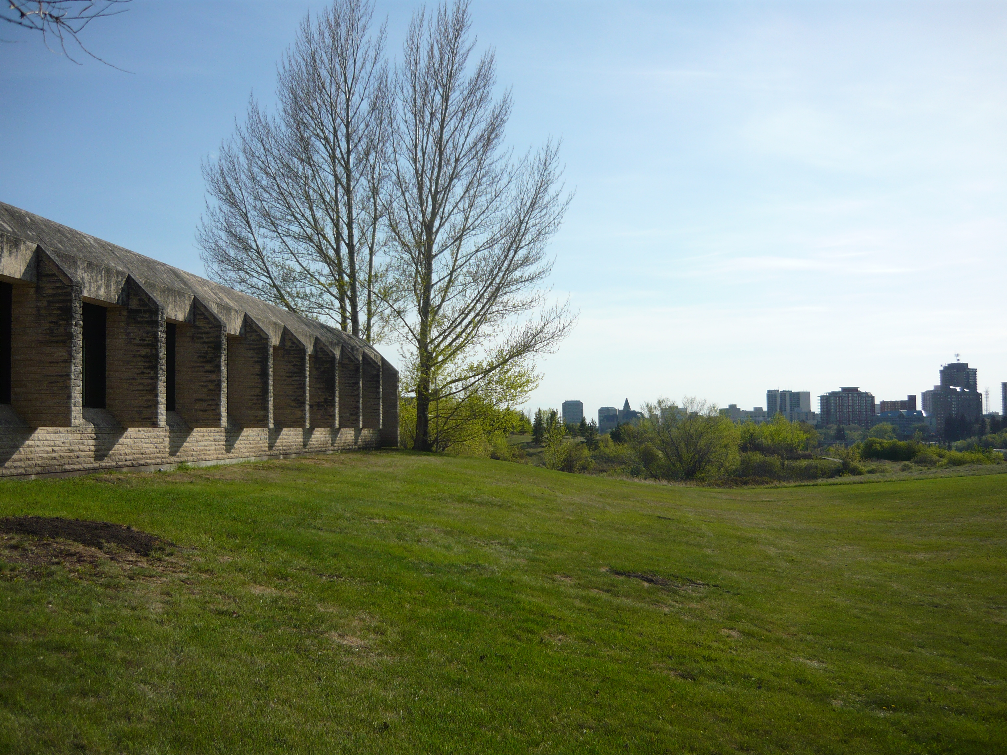 On the left, Diefenbaker Canada Centre (Architects: Moore & Taylor, Opened 1980), 101 Diefenbaker Place, University of Saskatchewan, Saskatoon, Saskatchewan, Canada. Skyline of Saskatoon is visible on the right.